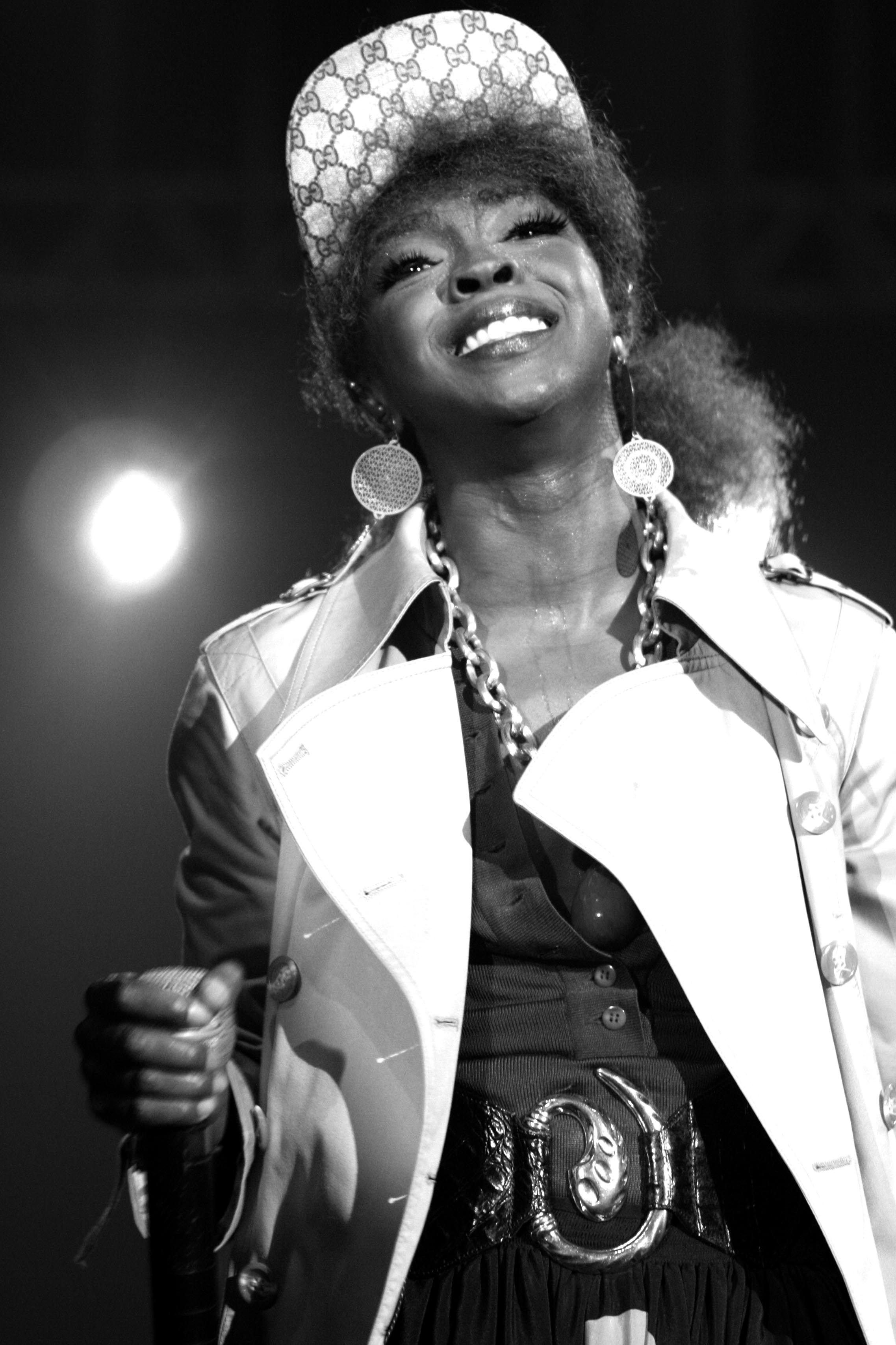 Lauryn Hill live at Tom Brasil in São Paulo, Brazil, in 2007.